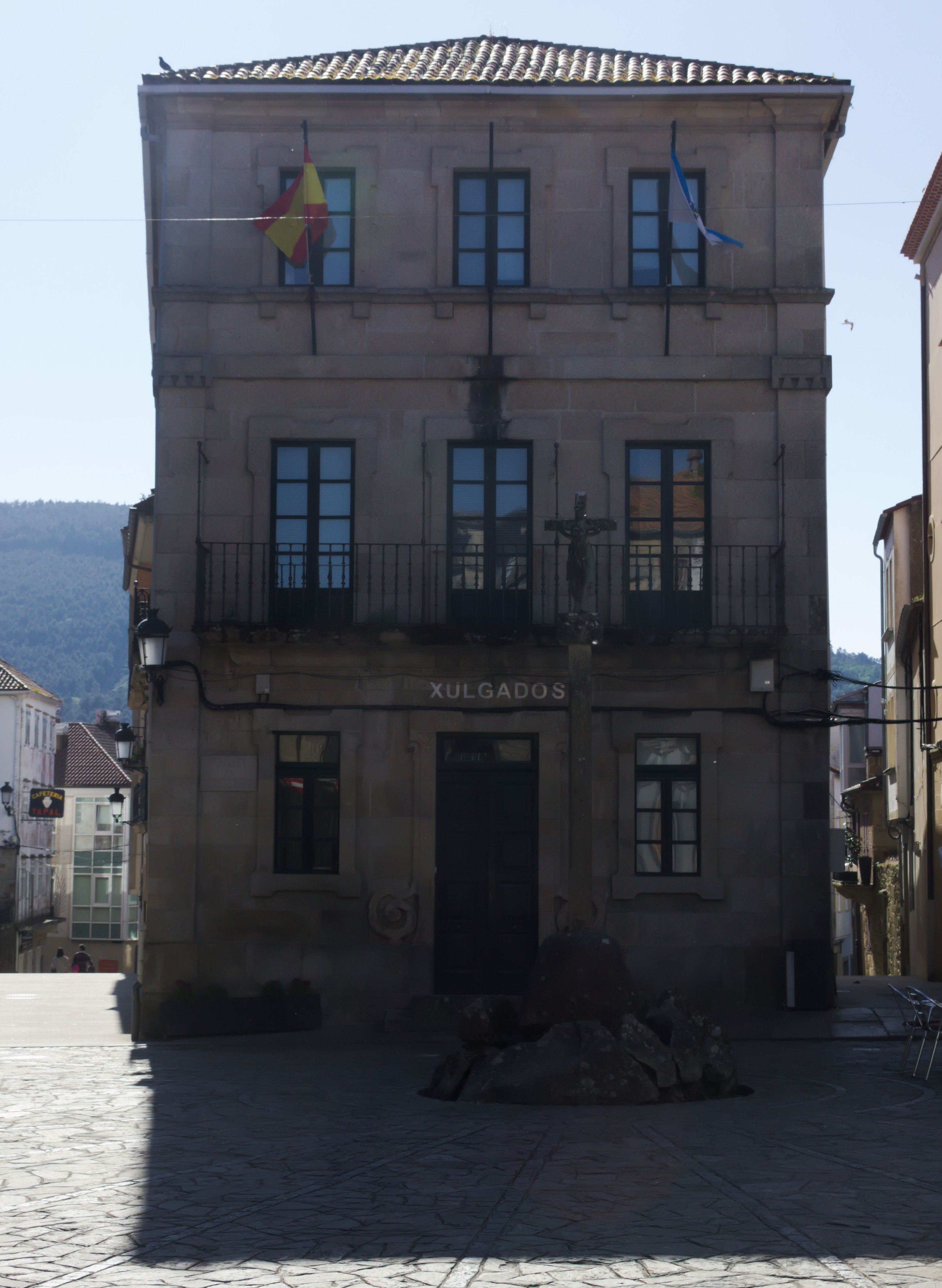 Court of Noia, in Galicia, Spain.